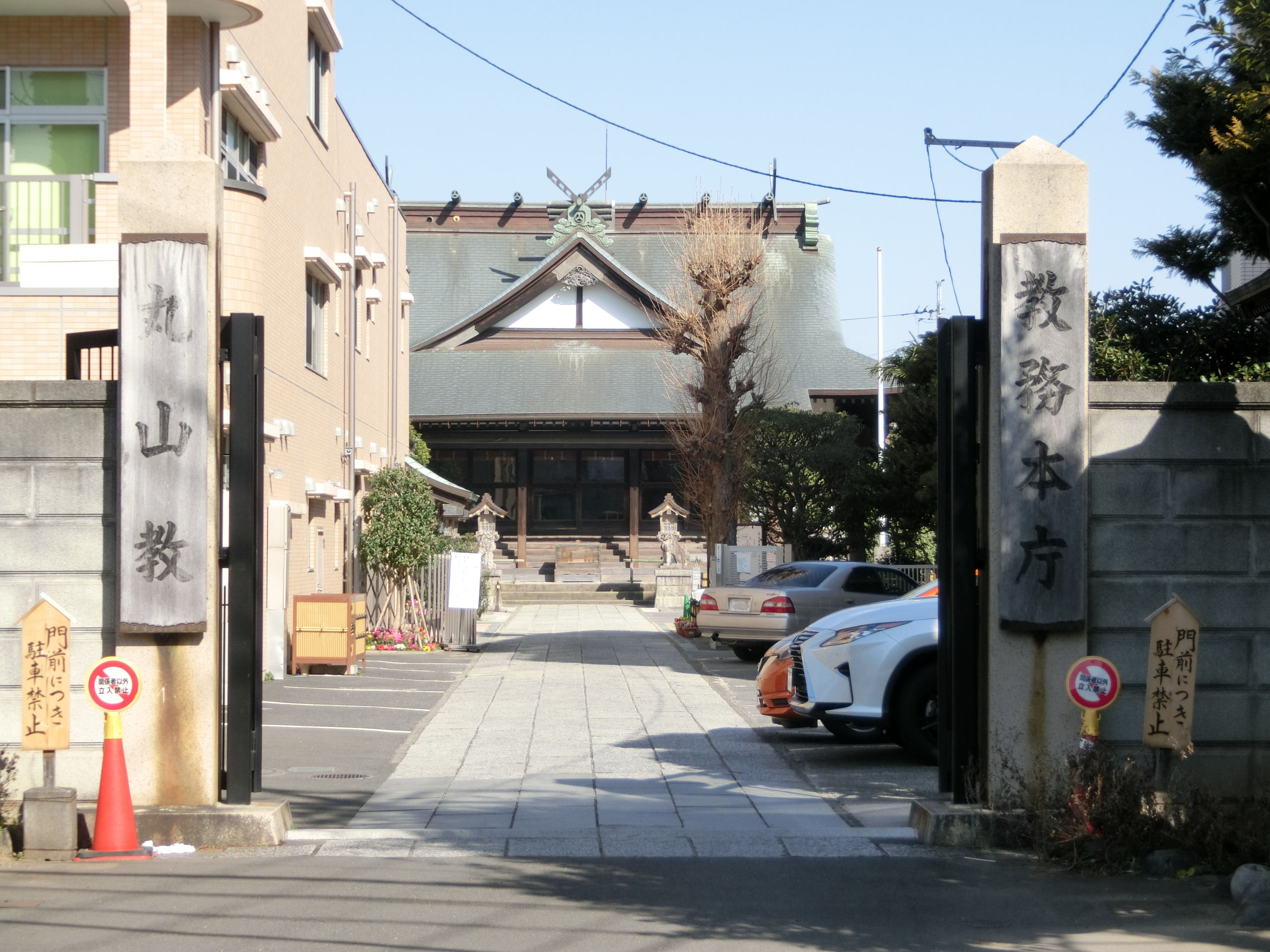 Maruyamakyo Headquarters